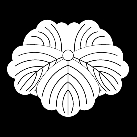 Japanese family crest "Tsuta"